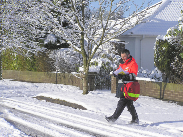 Royal Mail early morning delivery, Omagh.